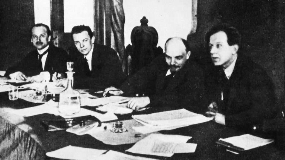 Gustav Klinger, Hugo Eberlein, Vladimir Lenin and Friz Platten in the Presidium of the First Congress of the Comintern